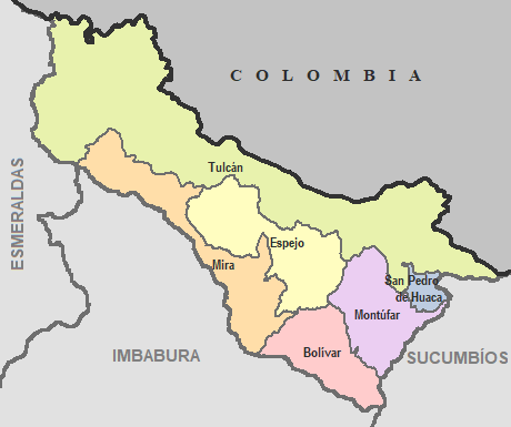 Cantons of Carchi